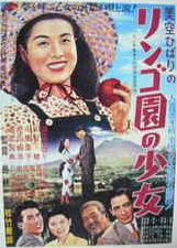 Movie poster for 1952 Japanese movie Ringo-en no shōjo (リンゴ園の少女, lit. "Girl of Apple Park").